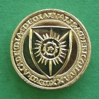 This is a photograph of the Haskin's Medal.